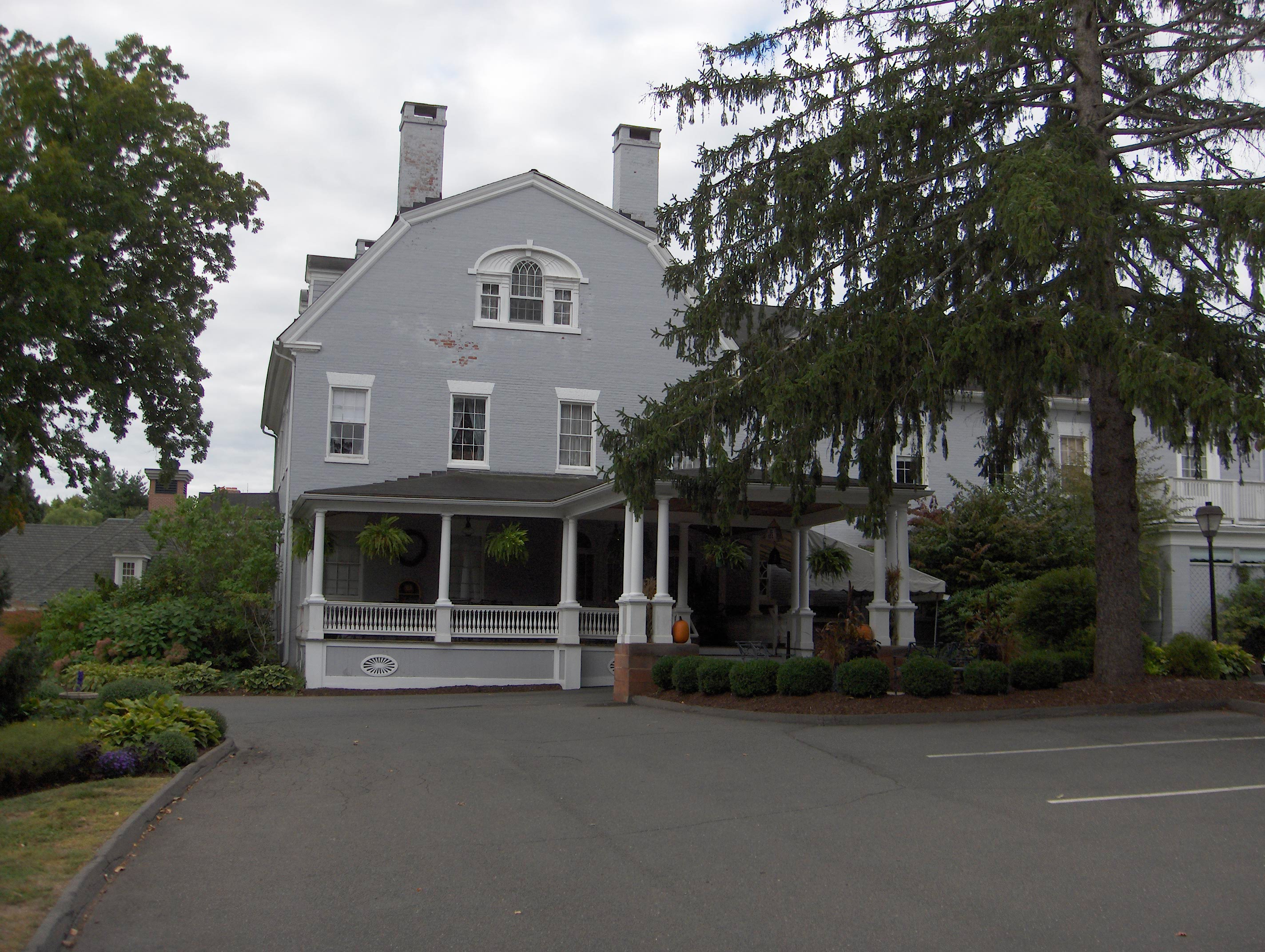 This building is known variously as the Amos Eno House, the Simsbury House and the 1820 House (oddly as it was built in 1822). It was originally built in the Federal style but underwent alterations in the Colonial revival style according to the NRHP listing